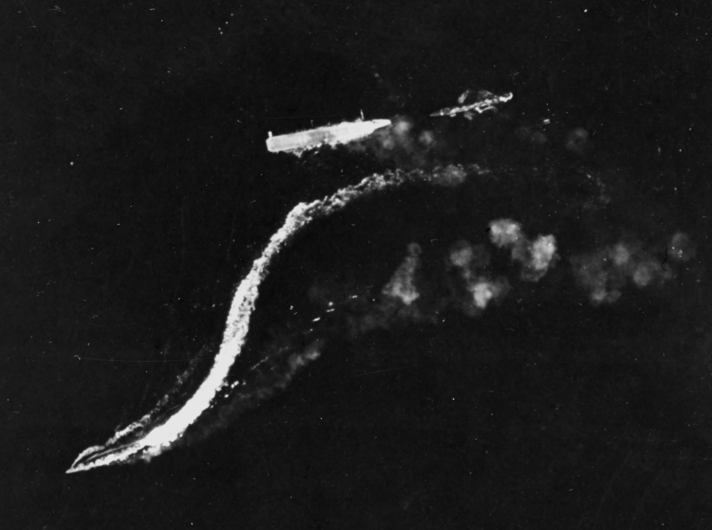 The damaged and immobile Japanese aircraft carrier Ryujo photographed from a USAAF Boeing B-17 Flying Fortress bomber, during a high-level bombing attack during the Battle of the Eastern Solomons on 24 August 1942. The destroyers Amatsukaze (lower left) and Tokitsukaze (right) had been removing her crew and are now underway, one from a bow-to-bow position and the other from alongside. Two sticks of bombs are faintly visible about one ship-length above the carrier's bow and stern.